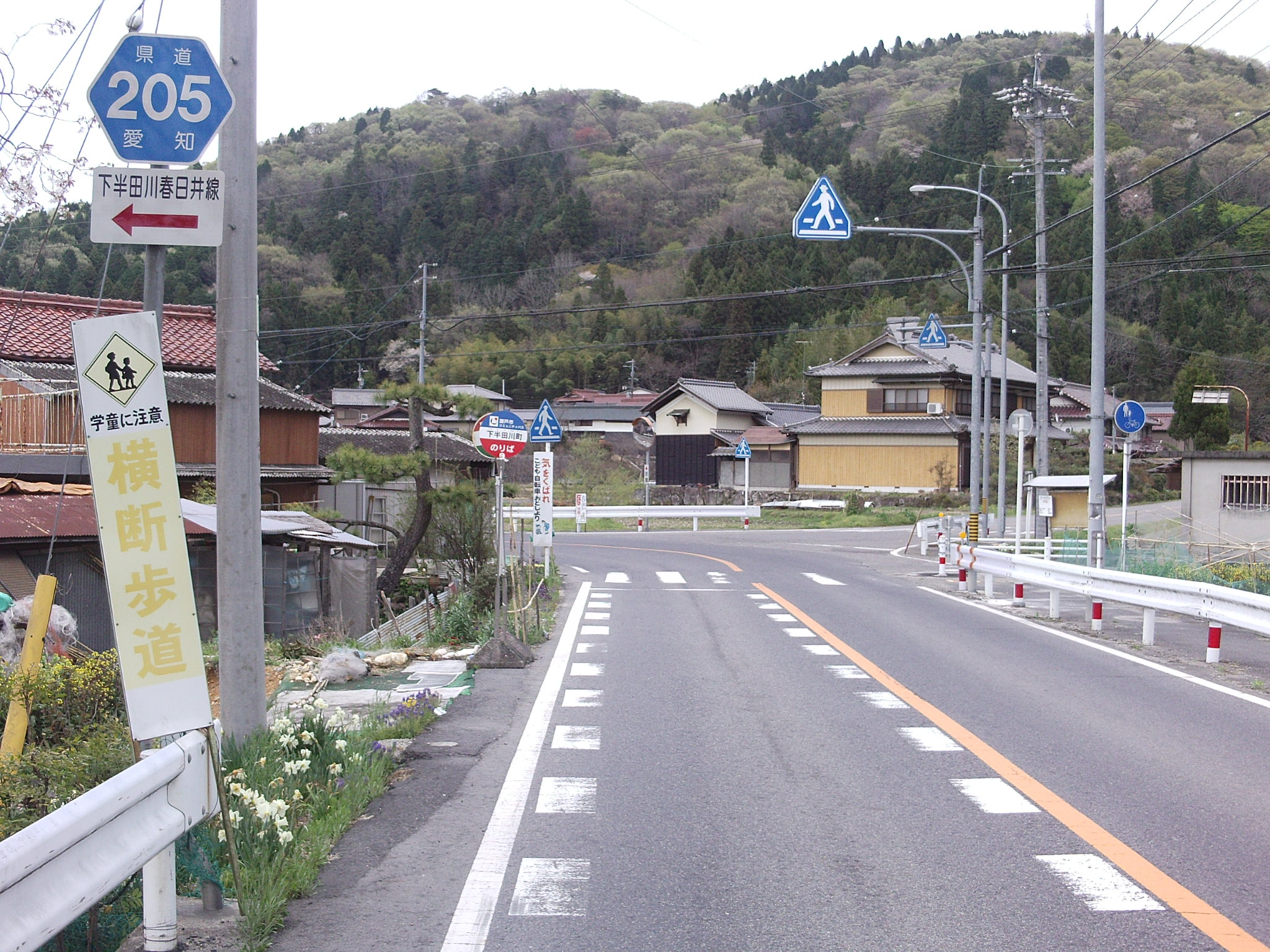 The Aichi Prefectural Road Route 205 in Shimohadagawacho, Seto City